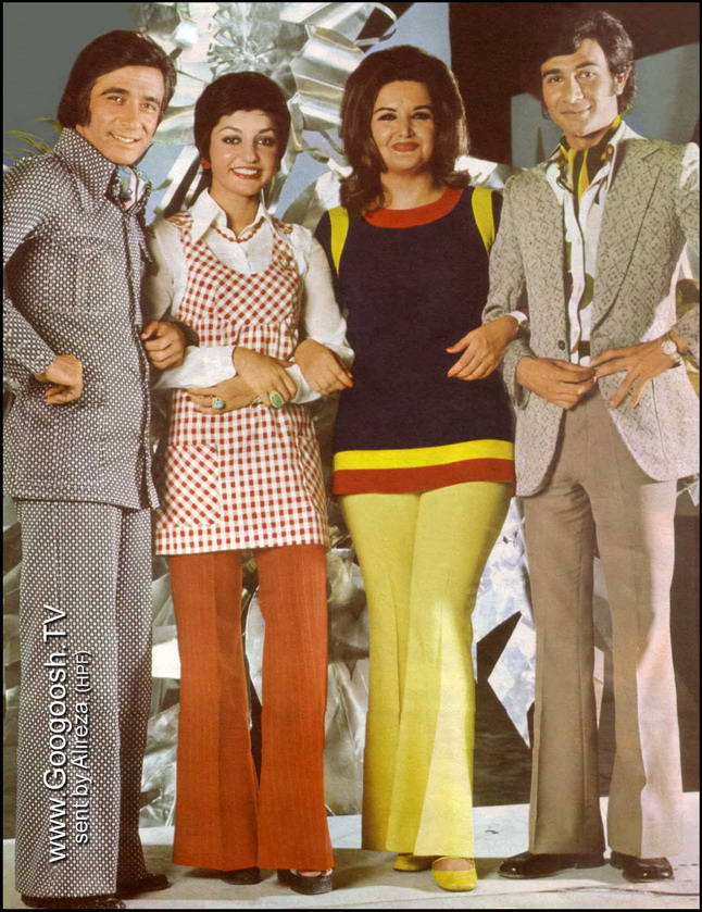 From right to left: "Vafa", "Pouran", "Googoosh" & «Hosein Sarshar», published by an Iranian magazine, before 1979.